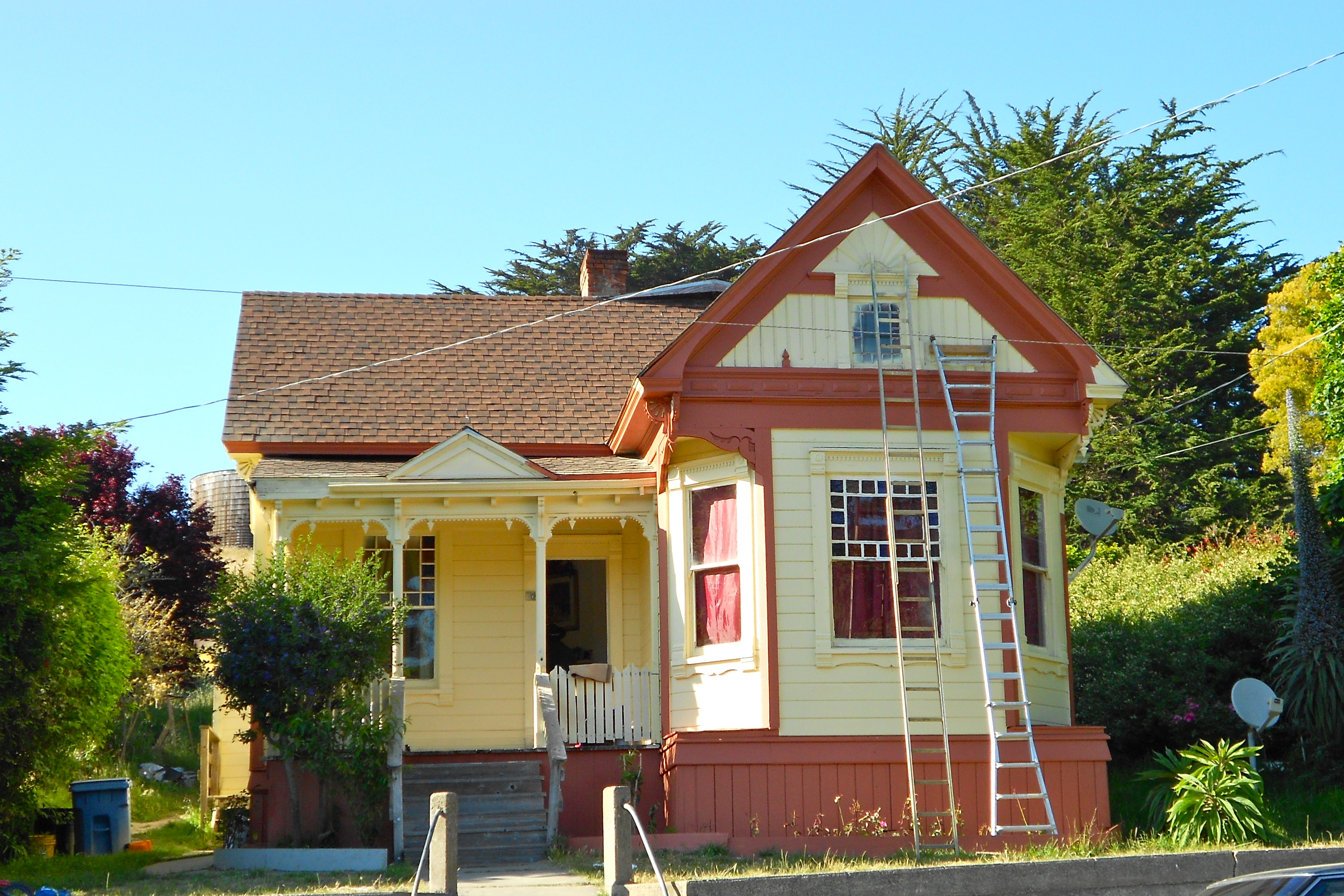 The Victorian Groshen House — at 50 Mill Street, Point Arena, California.